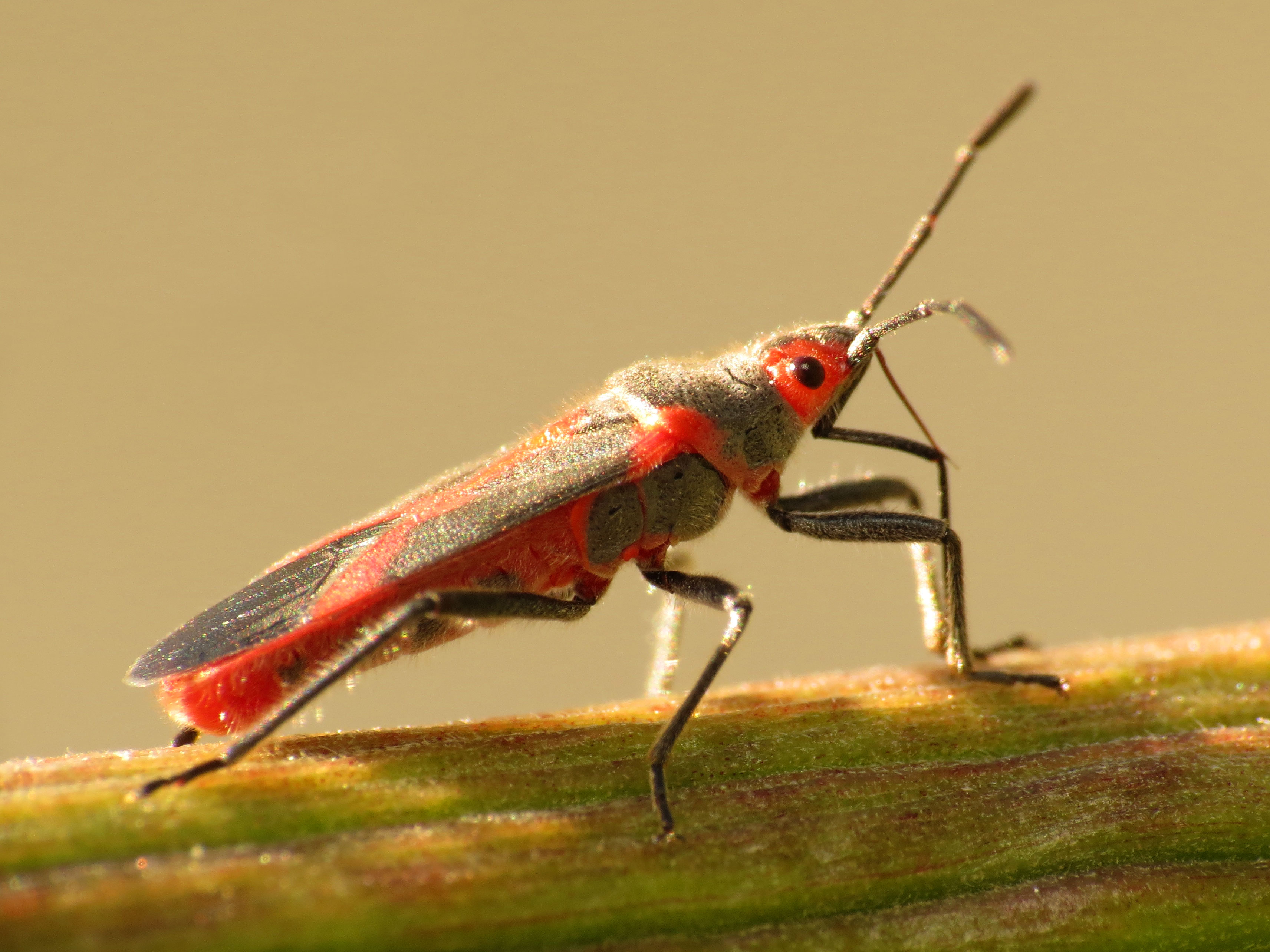 Caenocoris nerii sucking on an Oleander pod. Els Poblets, Alicante, Spain